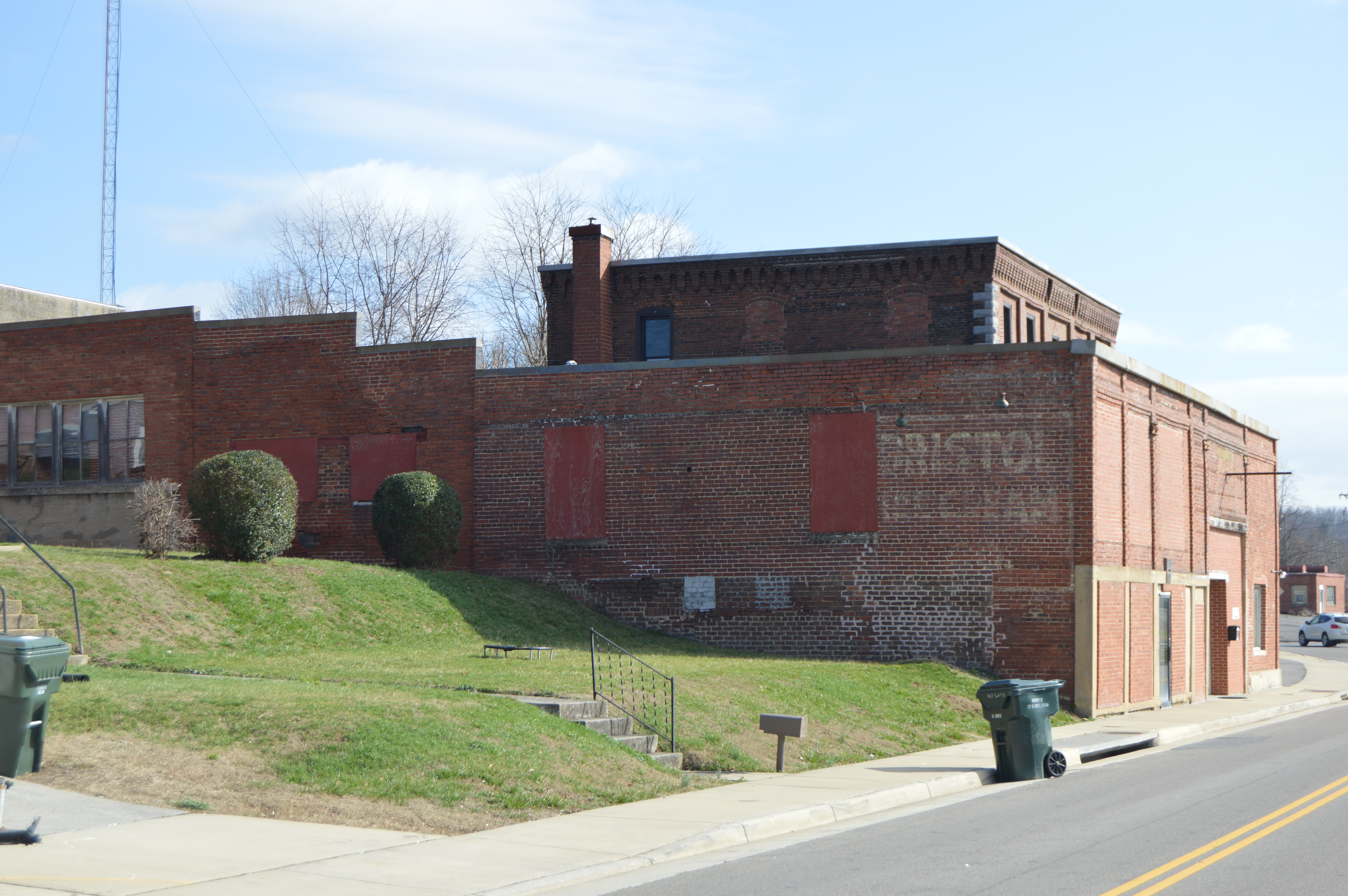 Western side and front of the building located at 415-417 Scott Street in Bristol, Virginia, United States. It is part of the Bristol Warehouse Historic District, a historic district that is listed on the National Register of Historic Places.